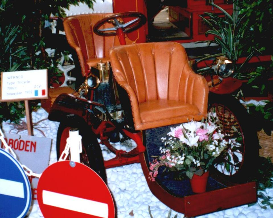 Werner Tricycle 1902